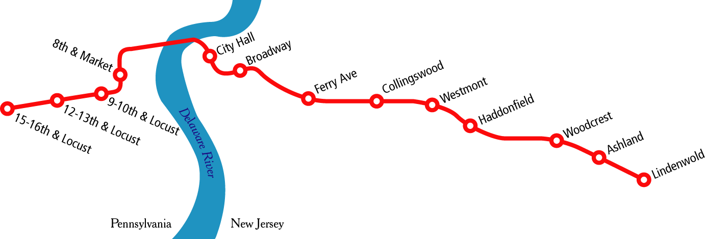 Map of the PATCO system created by User:Darkcore. Creator releases map to be used for any purpose.